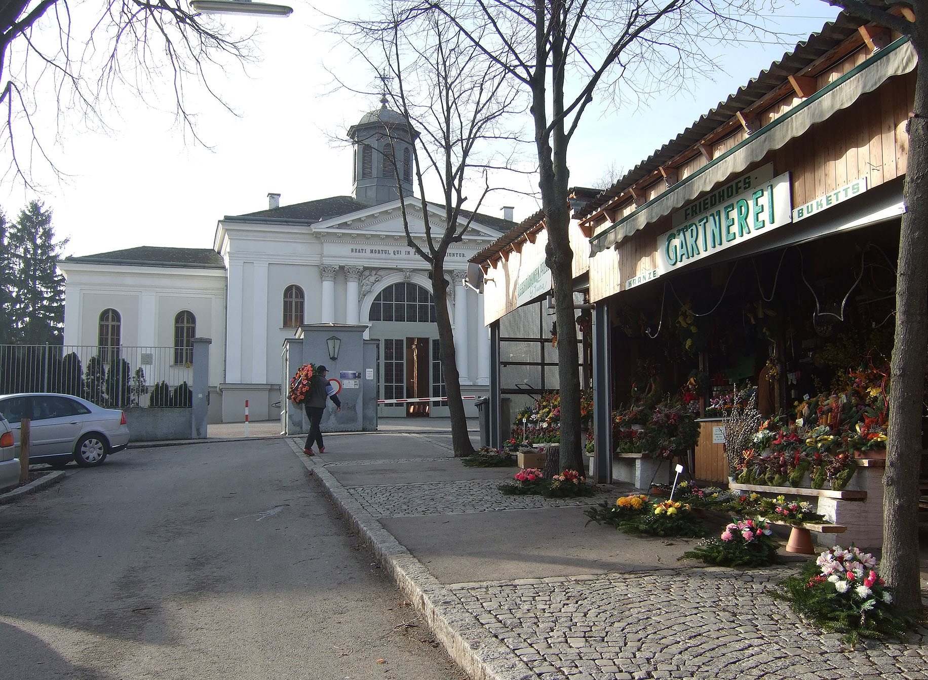 Nursery and mortuary at the entrance of the cemetery in Ottakringer, Vienna.